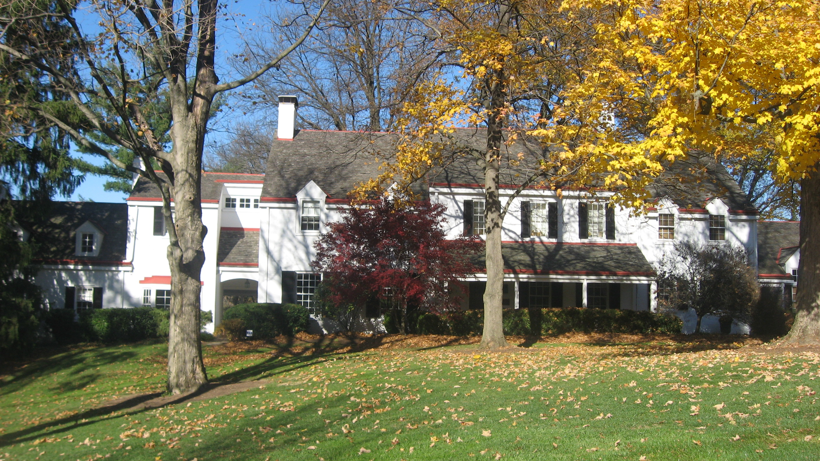 Front of the James Baxter House, located at 2930 Fair Acres Drive in Amberley, Ohio, United States. Built in 1807, it is listed on the National Register of Historic Places.